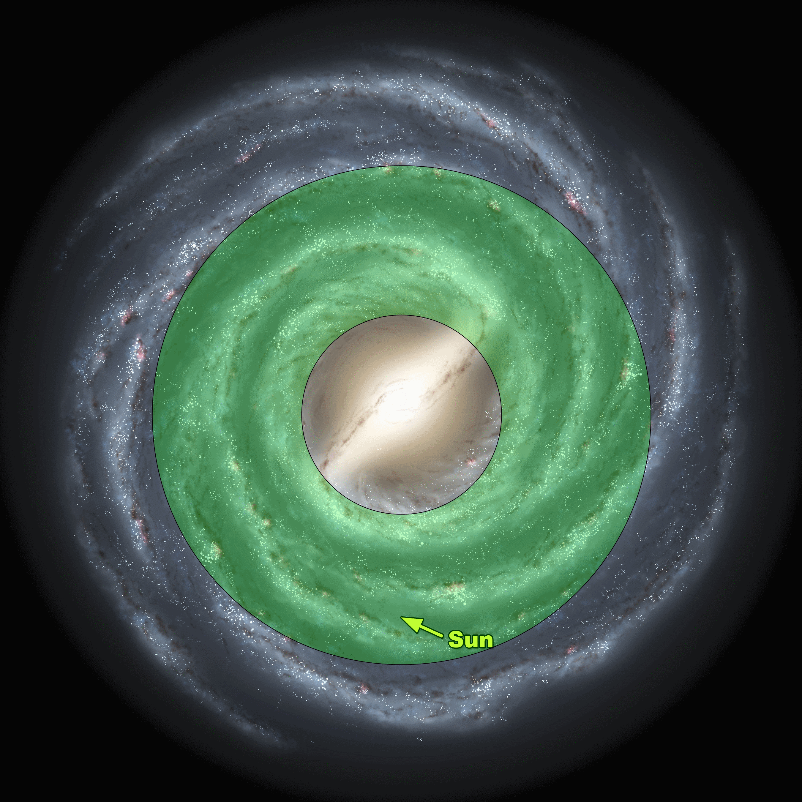 This is the galactic habitable zone of the Milky Way, as predicted by Lineweaver et al (2004).